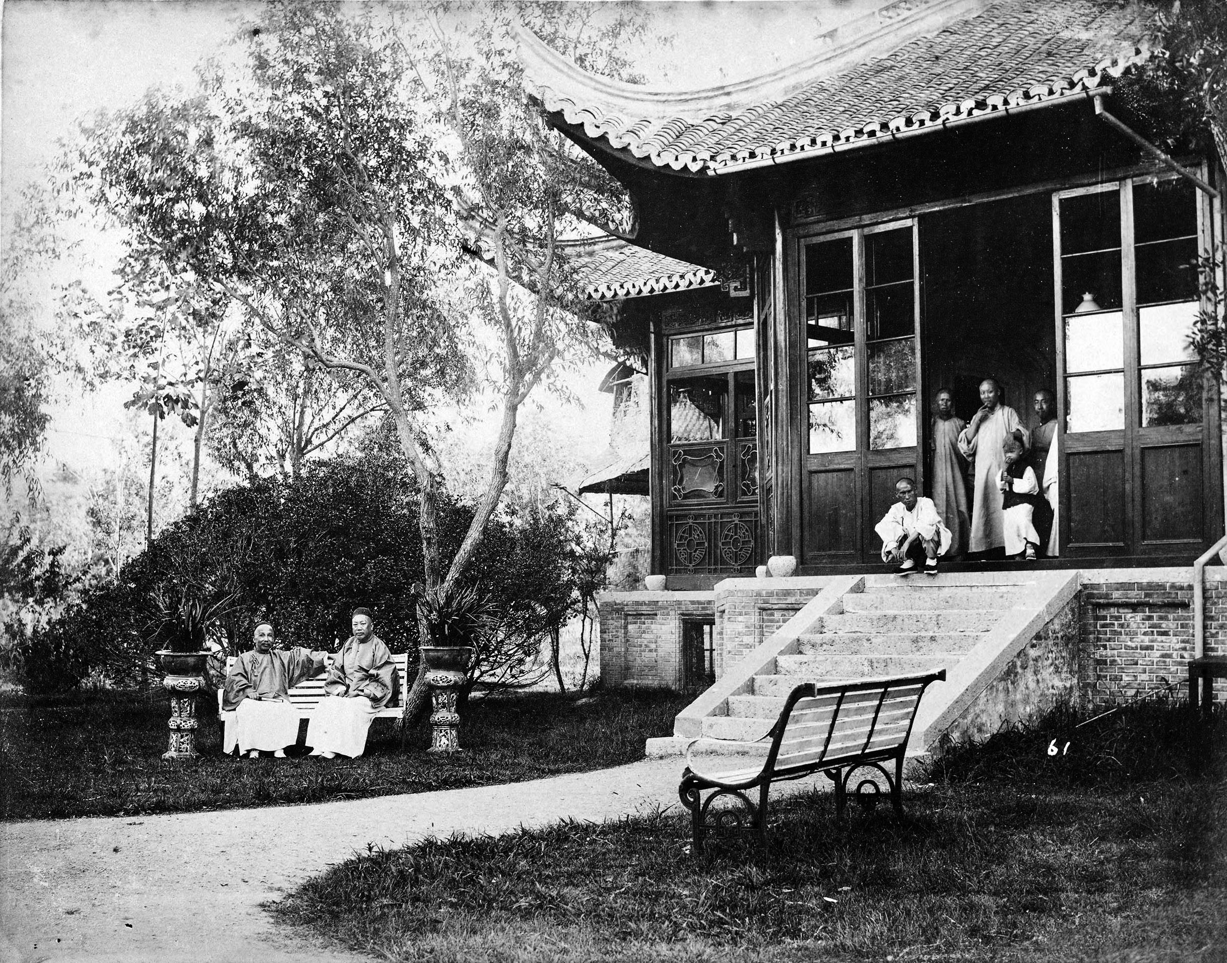 Photograph in Images related to Shanghai and other Chinese cities.